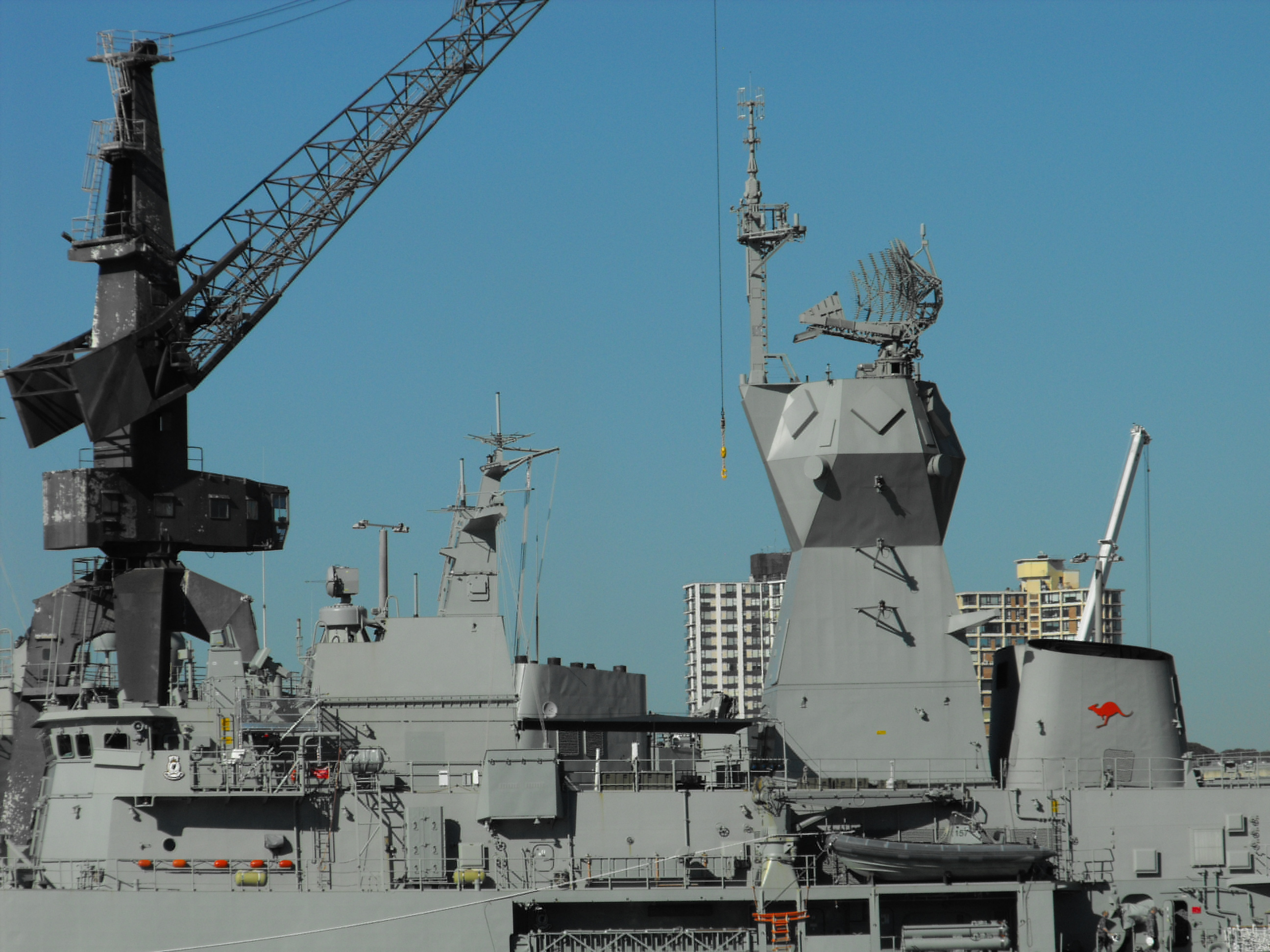 Closeup of the new fore and aft masts fitted to the Anzac class frigate HMAS Perth as part of the Anti-Ship Missile Defence upgrade.